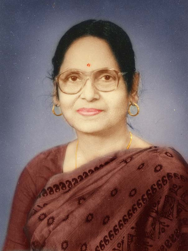 Picture of Kumari Radha